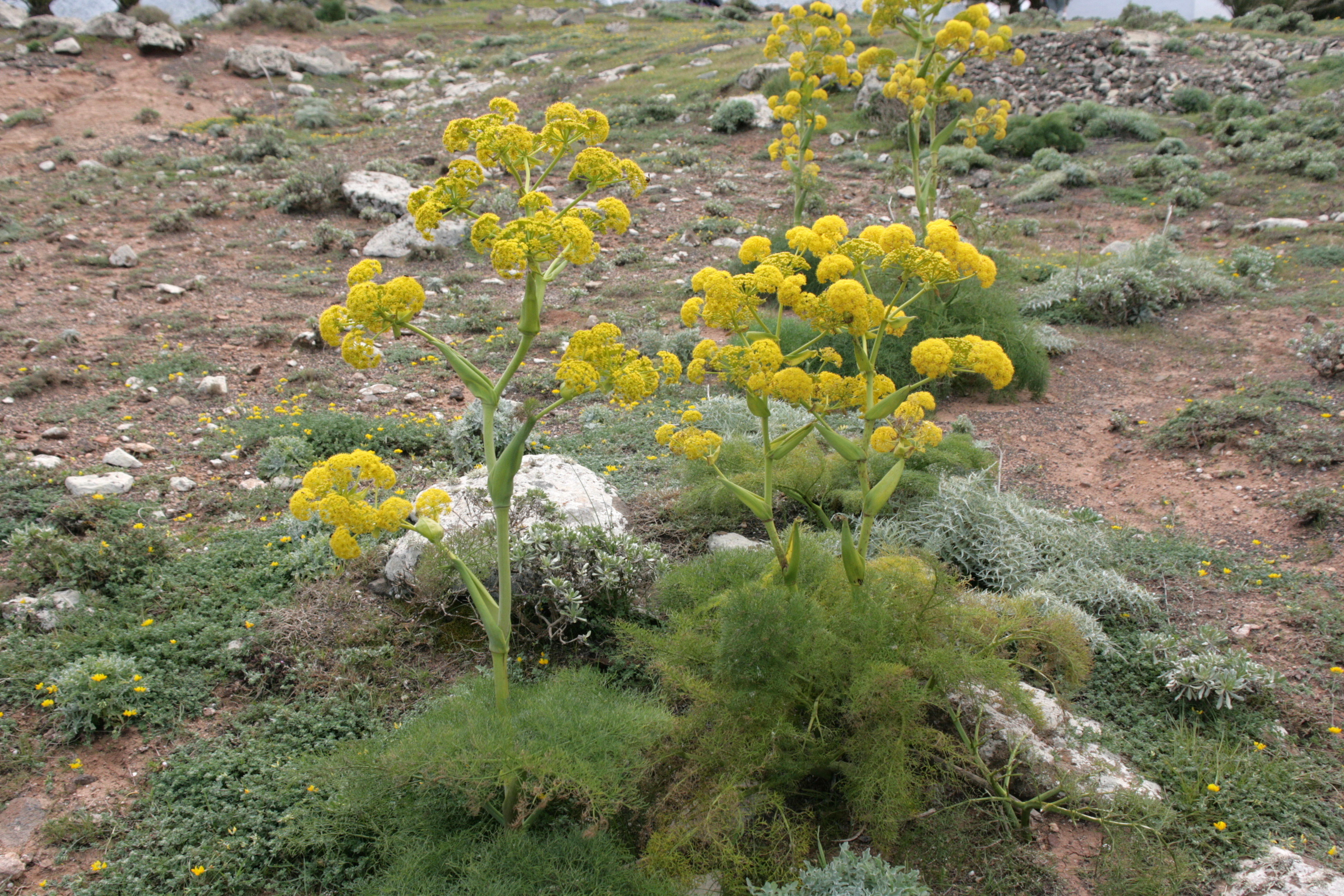 Ferula lancerottensis growing at Camino de Teguise al las Nieves in Teguise